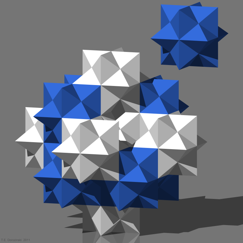 The first stellation of the rhombic dodecahedron fill space (vide Alan Holden "Shapes, Space and Symmetry").